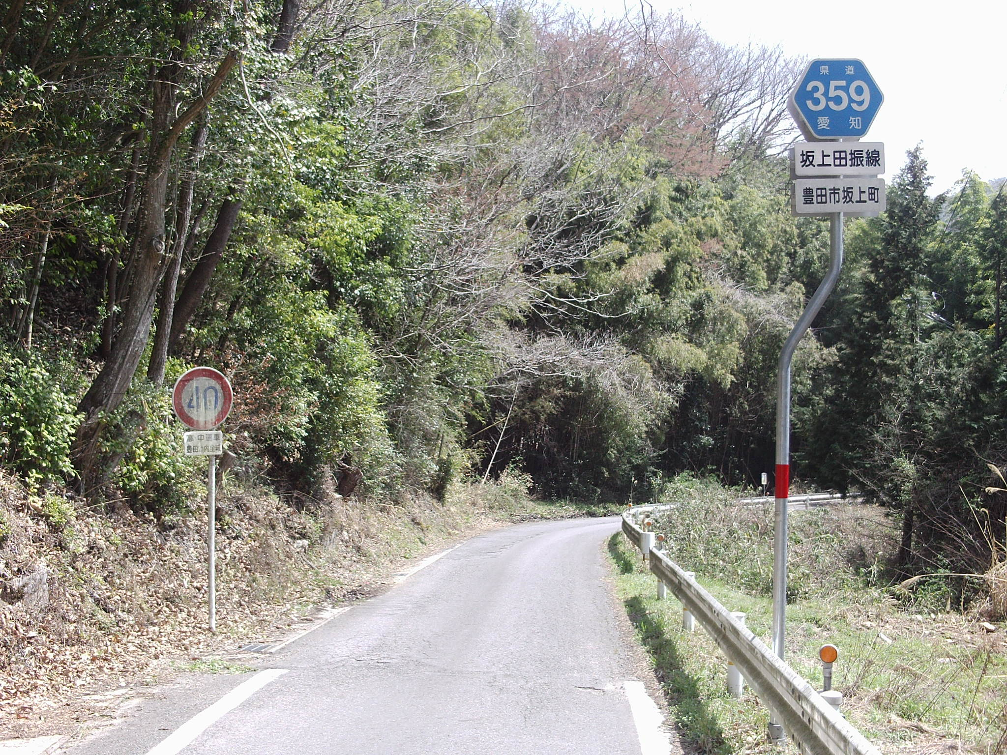 Aichi prefectural road No.359 in Sakauecho, Toyota, Aichi.